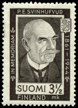 Postage stamp depicting Finnish statesman and president P. E. Svinhufvud